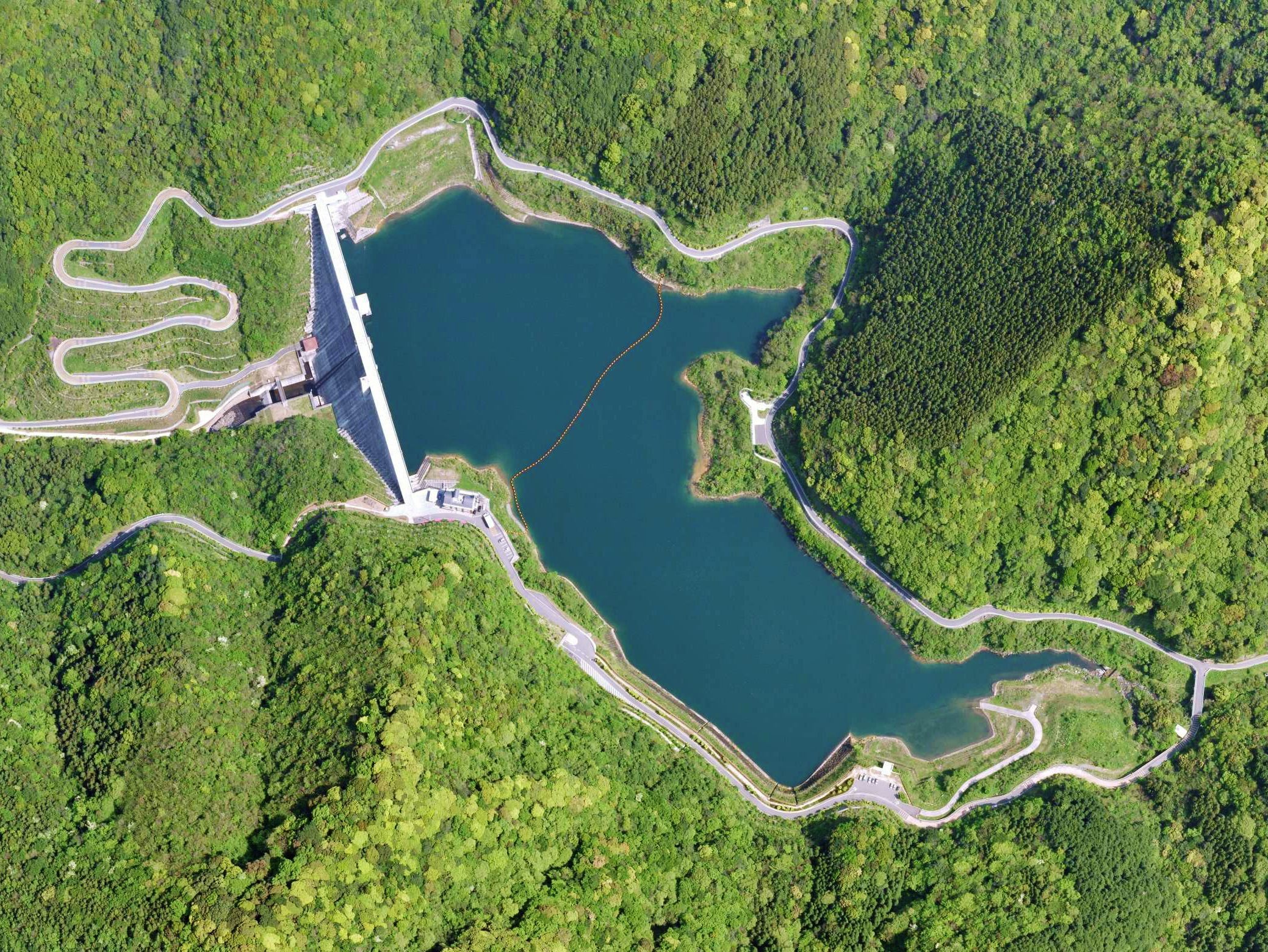 Fukuchiyama Dam.